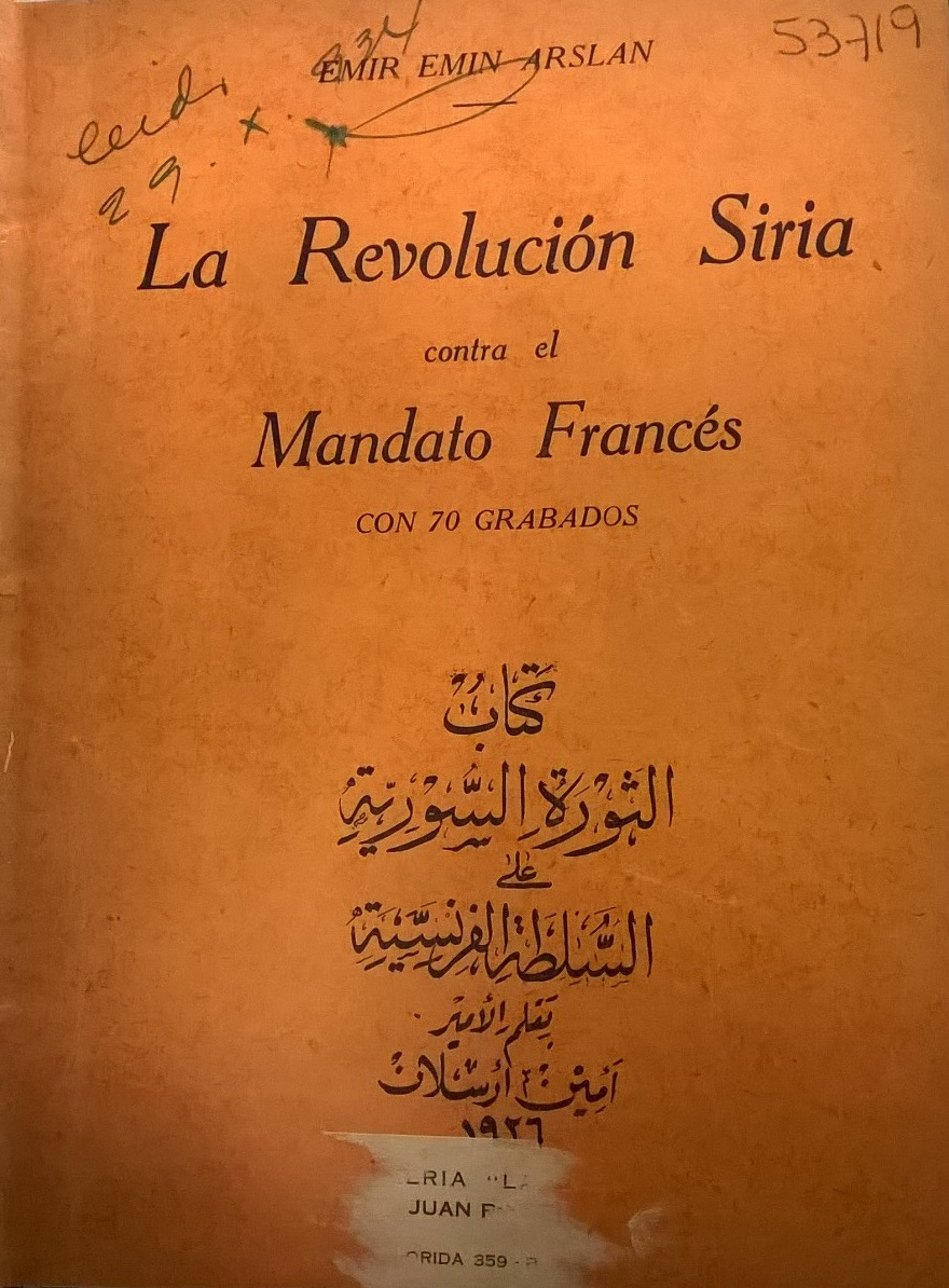 Cover of "La Revolución Siria contra el Mandato Francés" (1926), by Emin Arslan (1868-1943). In Spanish.